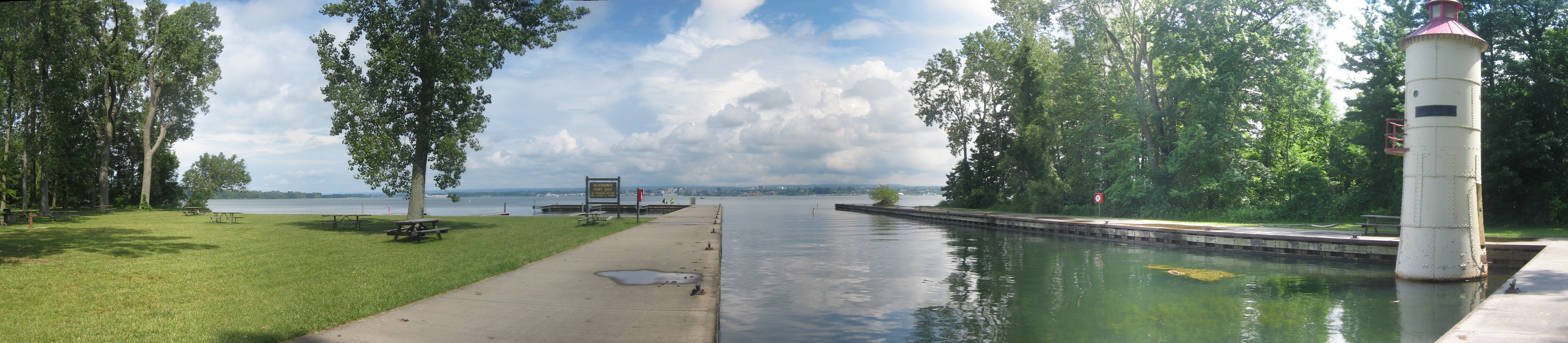 Waterworks Ferry lighthouse and dock with Presque Isle Bay and the city of Erie in the background from Presque Isle State Park in Erie County, Pennsylvania, United States